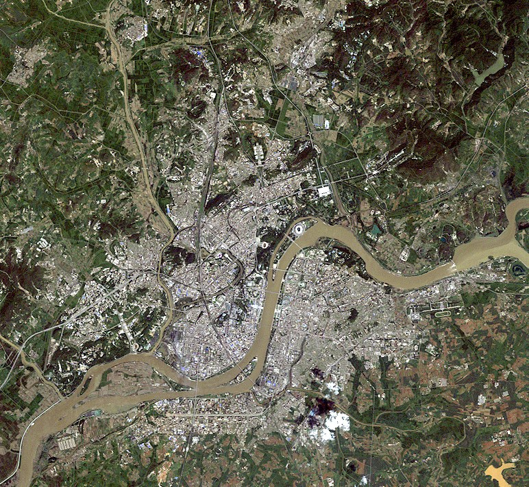 Pyongyang satellite image 2007-08-22, LandSat 5, near natural colors, 30 m resolution